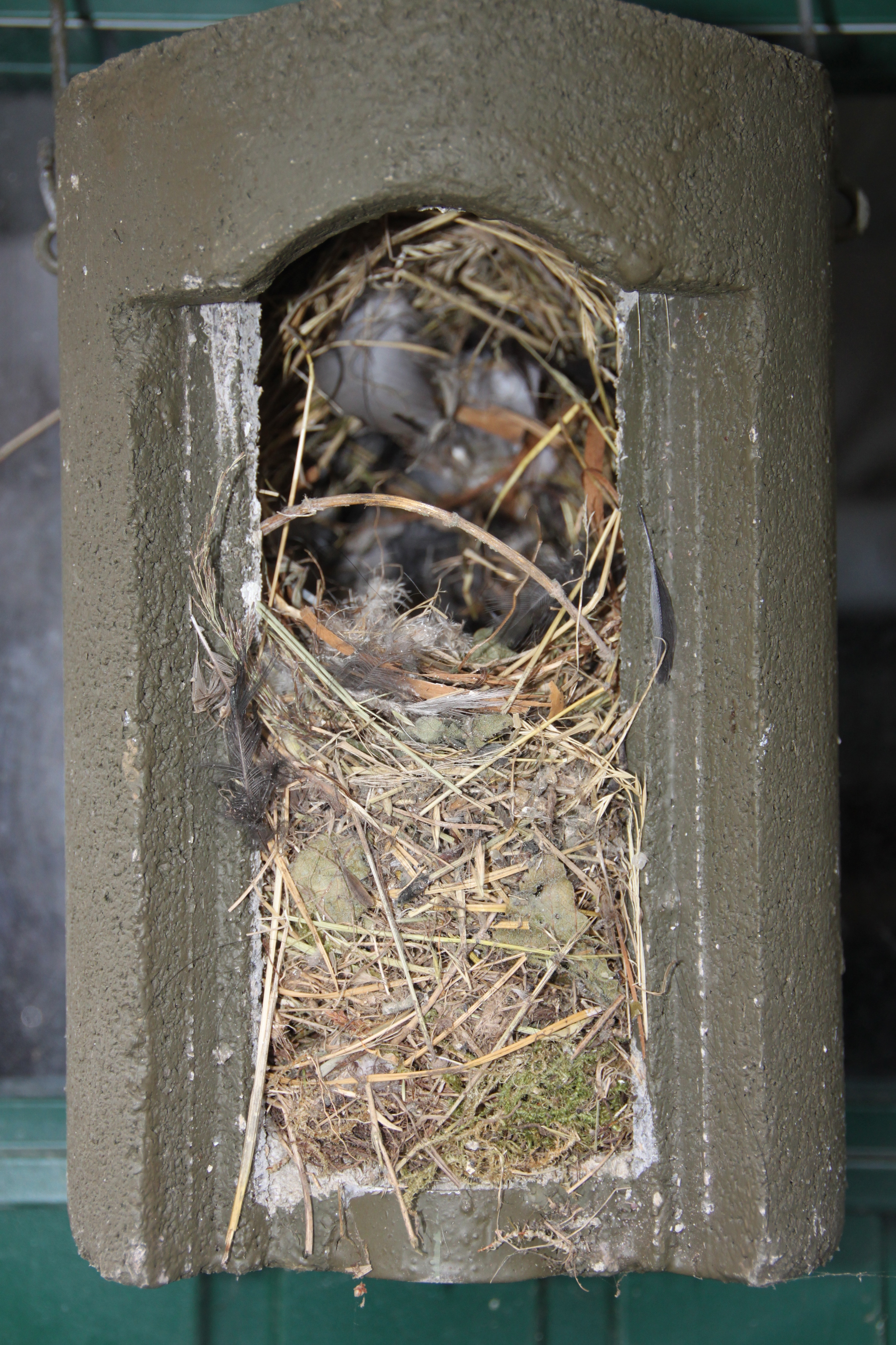 Open nest box just before the new breeding season with a tree sparrow nest of the previous breeding season. There have been two broods.